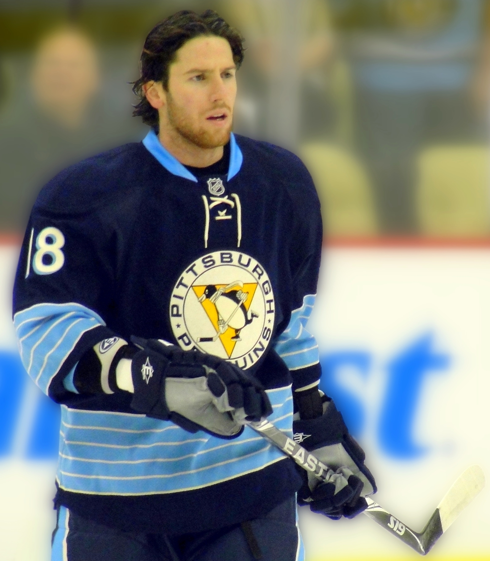 of the Pittsburgh Penguins before a game against the Montreal Canadiens March 12, 2011 at Consol Energy Center in Pittsburgh, PA. From PensAreYourDaddy.